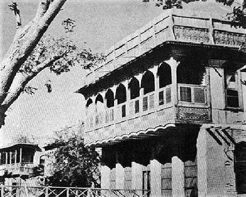 Shanashil of the old part of Basra city in southern Iraq,1954